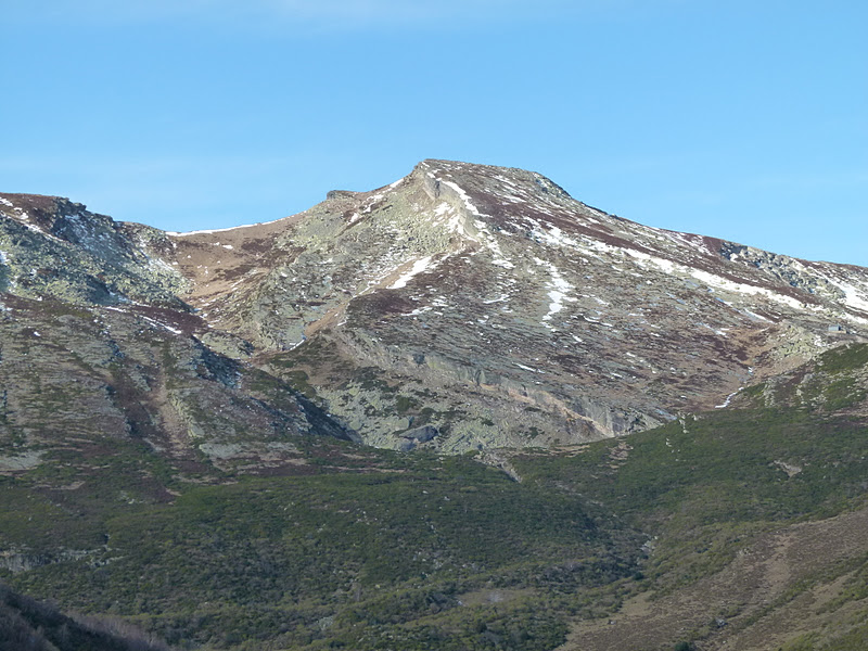 Cuchillón or Peña del Pando, South face.